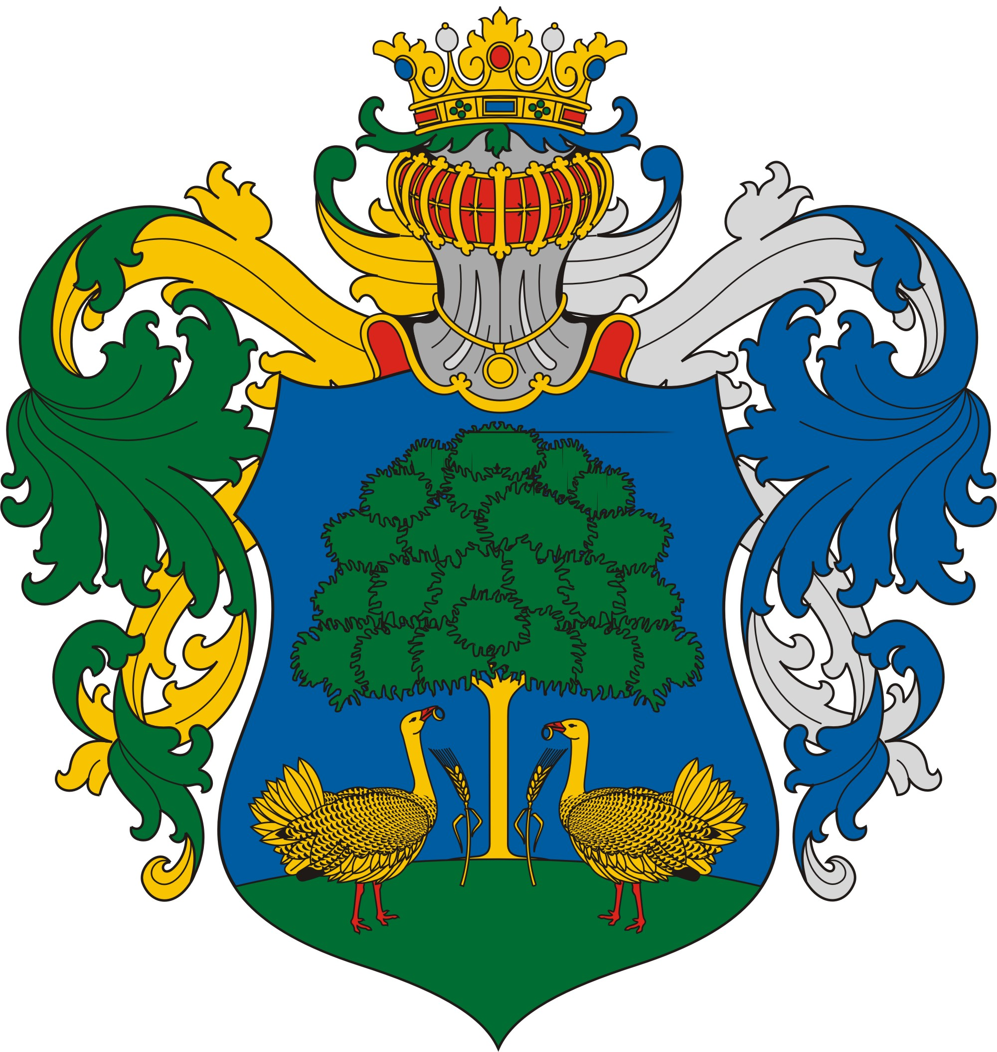 Coat of arms of Öcsöd, Hungary